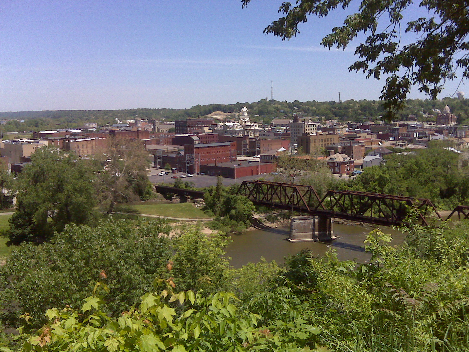 Downtown Zanesville, Ohio